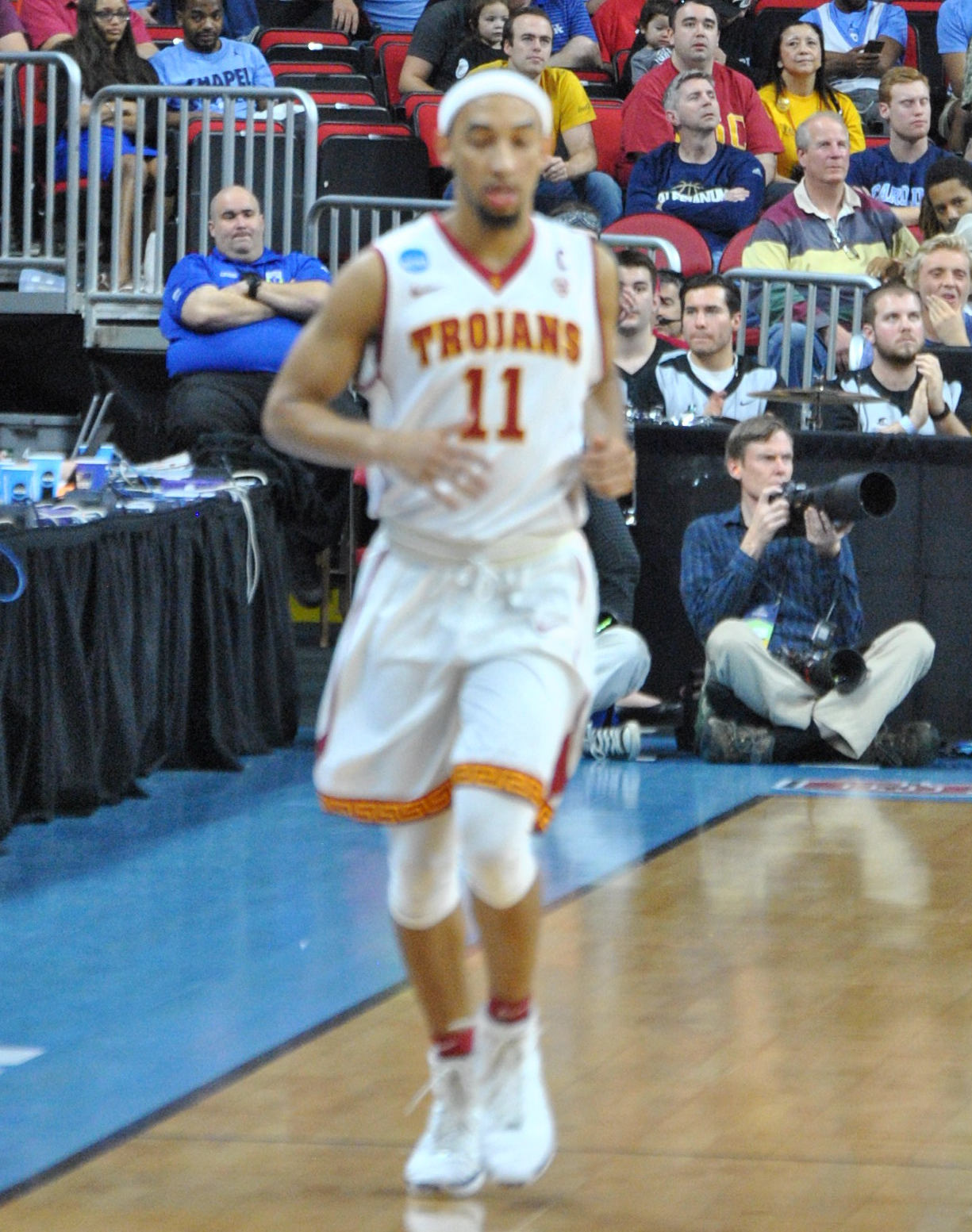 The final first round game in Raleigh featured the USC Trojans and the Providence Friars. It was the most exciting game of the day with the Friars winning at the Buzzer 70-69